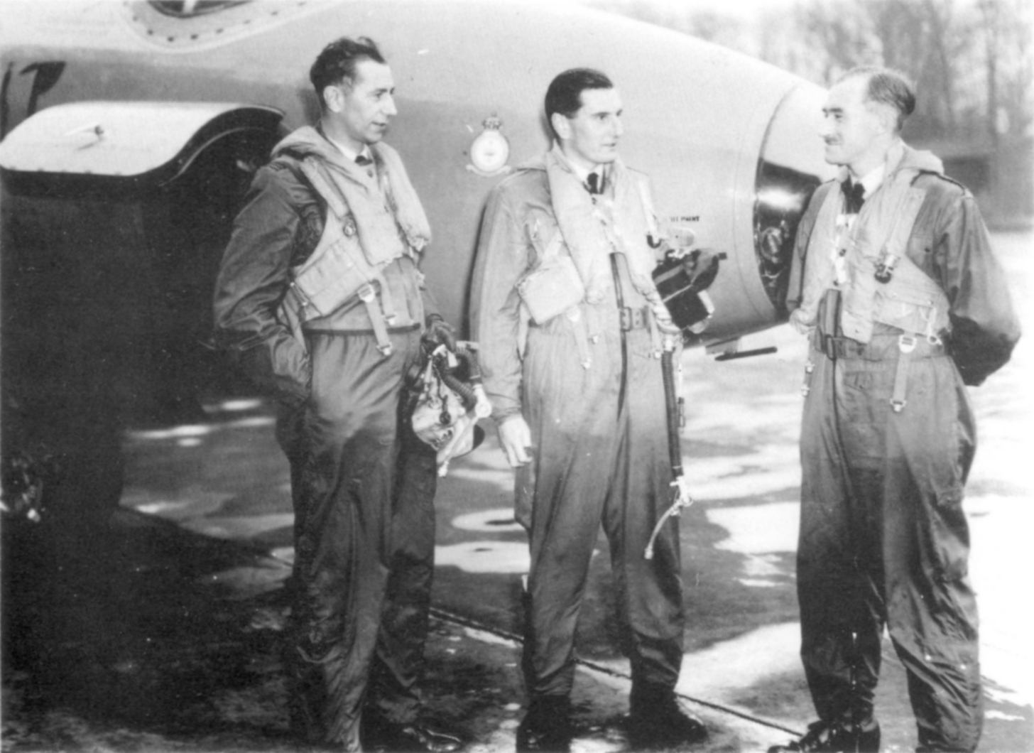 The pilot Wing Commander (later Marshal of the Royal Air Force) Andrew Humphrey with his two navigators (Squadron Leader (later Air Vice-Marshal) Douglas Bower and Squadron Leader R Powell) after their record-breaking flight from Cape Town to London